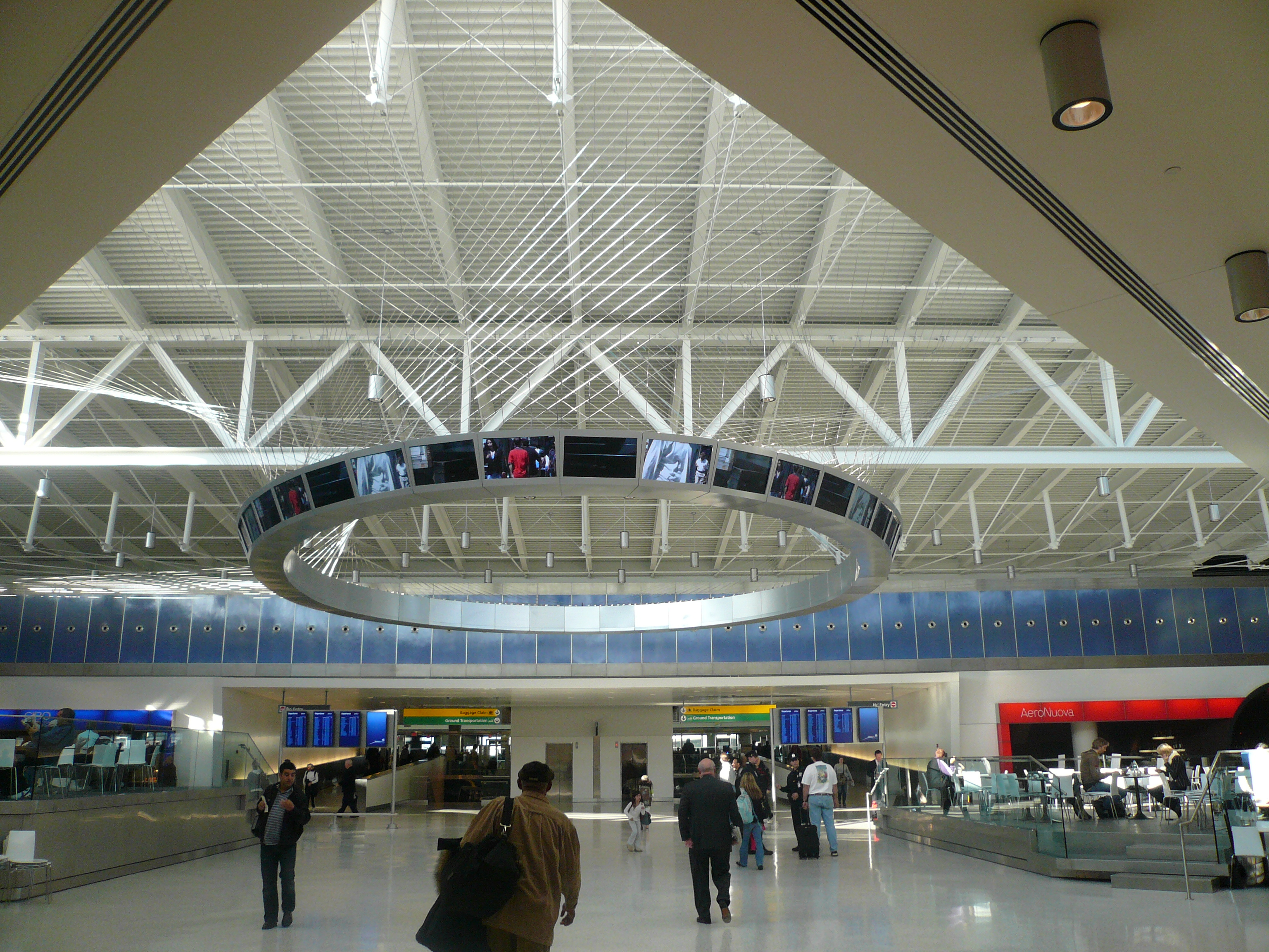 JetBlue Terminal 5, JFK Airport